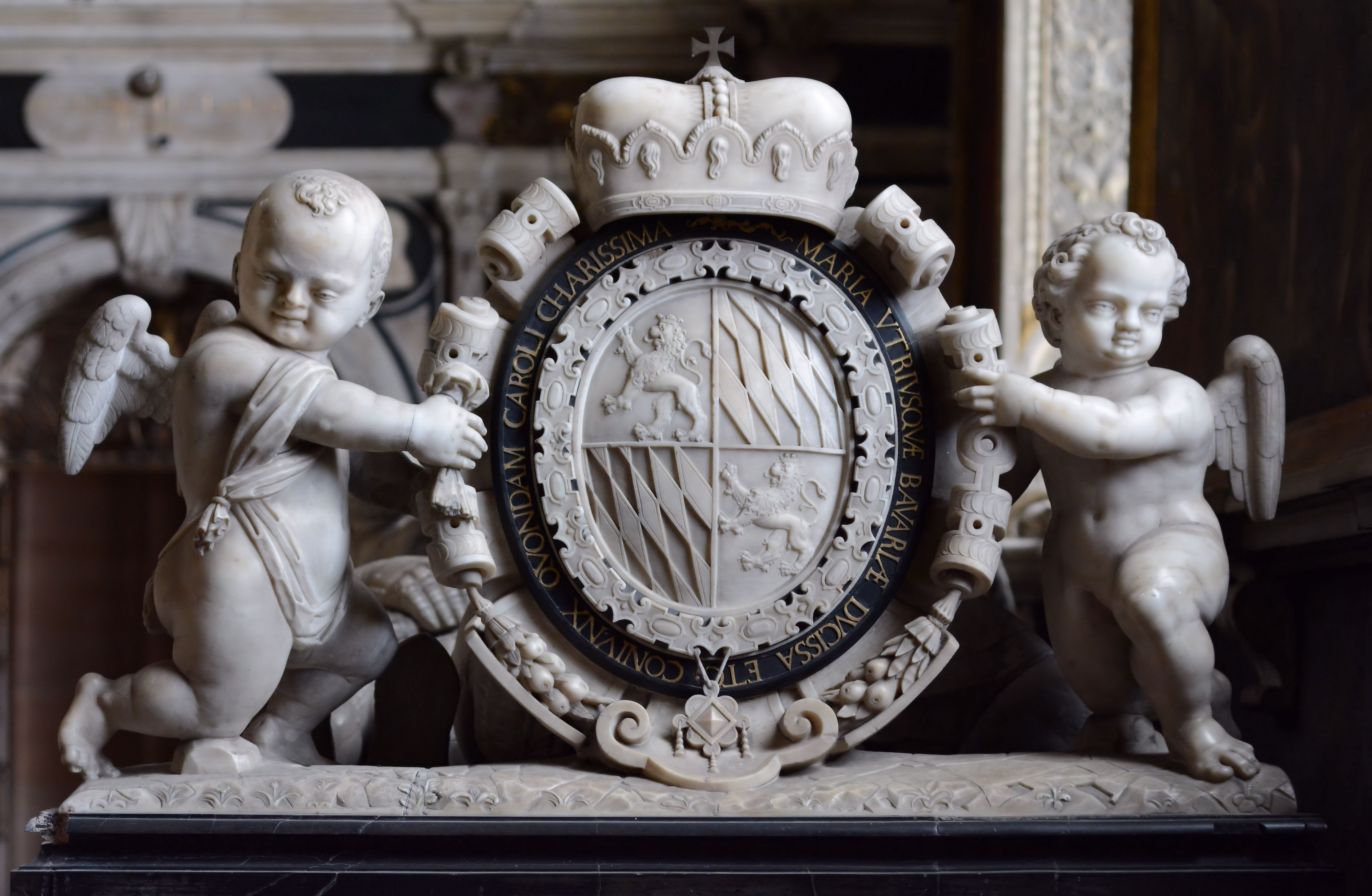 Seckau basilica, Habsburger mausoleum, Putti on cenotaph holding coat of arms of Wittelsbach (view from backside)